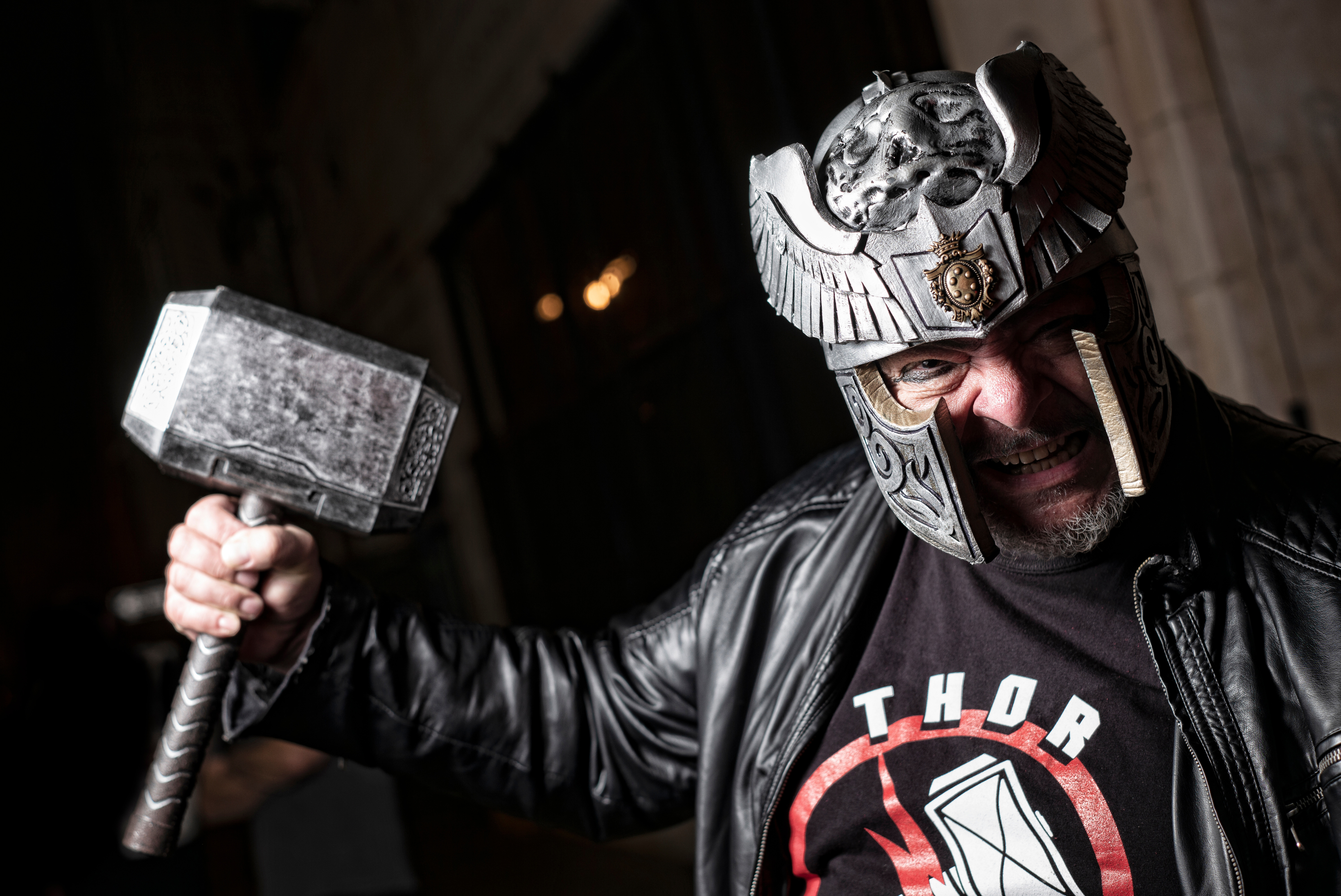 Jon Mikl Thor, 2019